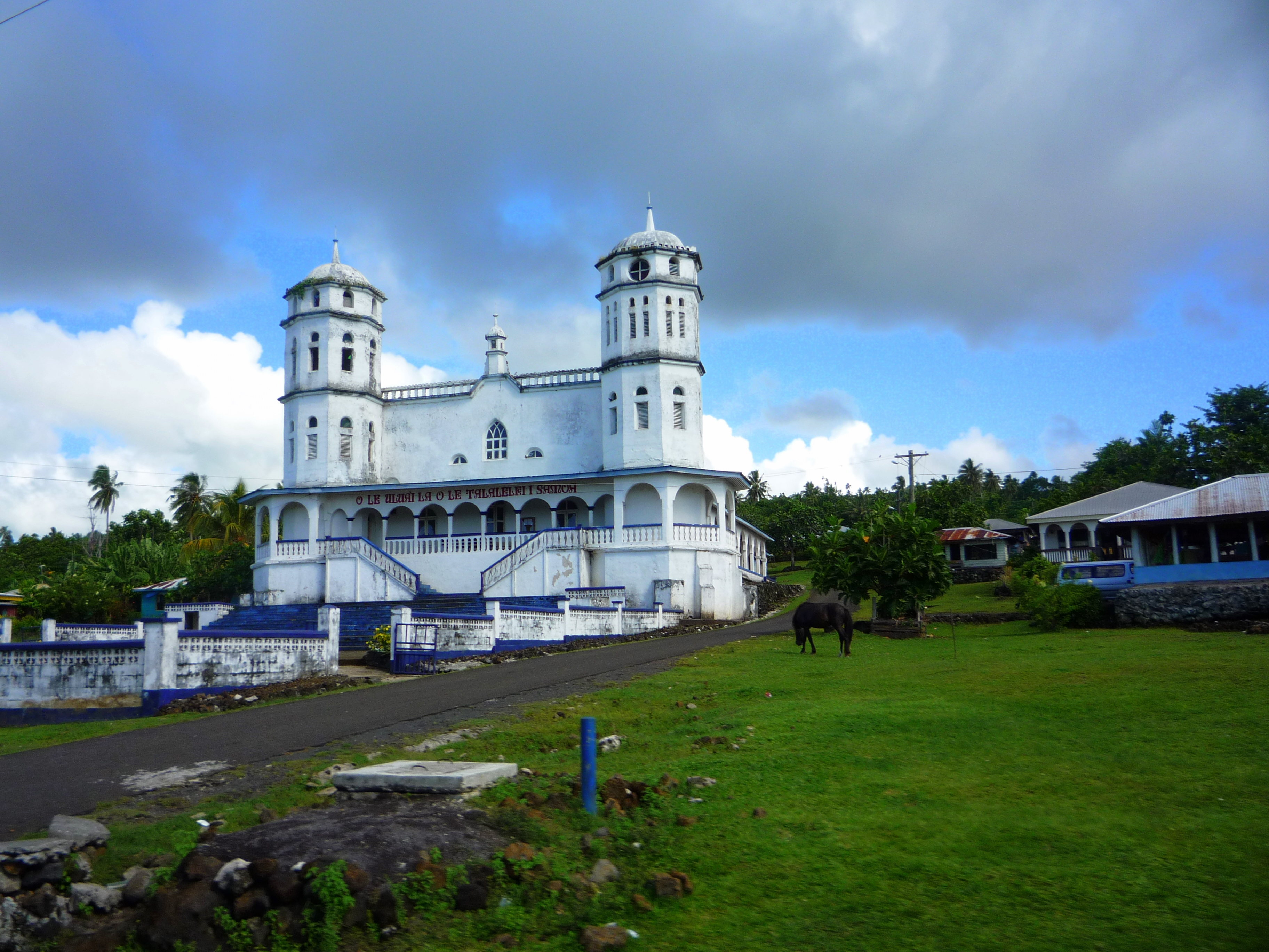 Church in Salelologa on the the east side of Savai'i island in Samoa.